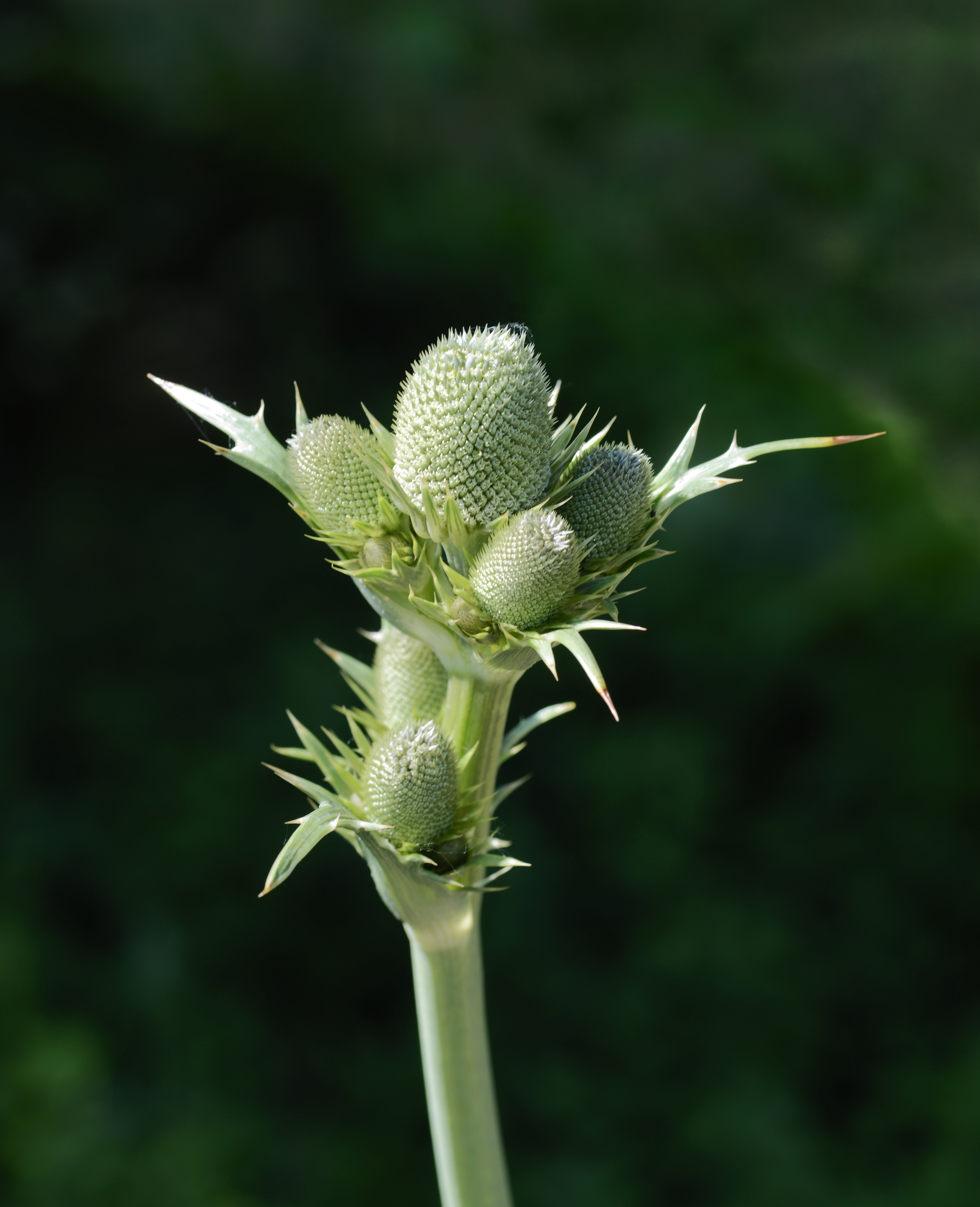 Agave-leaved Sea Holly (Eryngium agavifolium). Botanical Garden of Helsonki, Finland